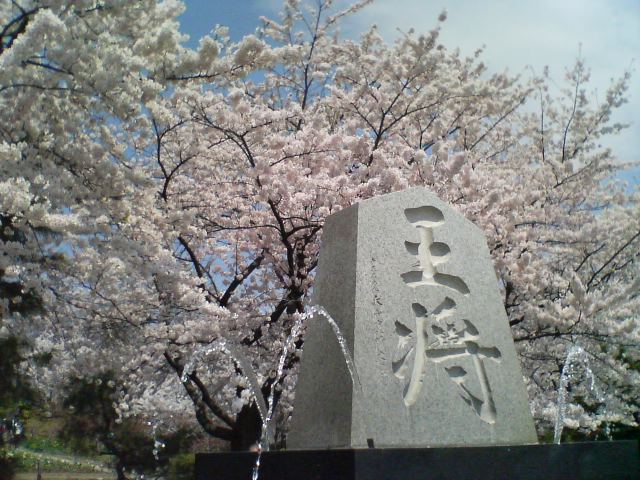 Osho (王将) statue at Mt. Maizuru (舞鶴山), Tendo city, Yamagata Pref., Japan